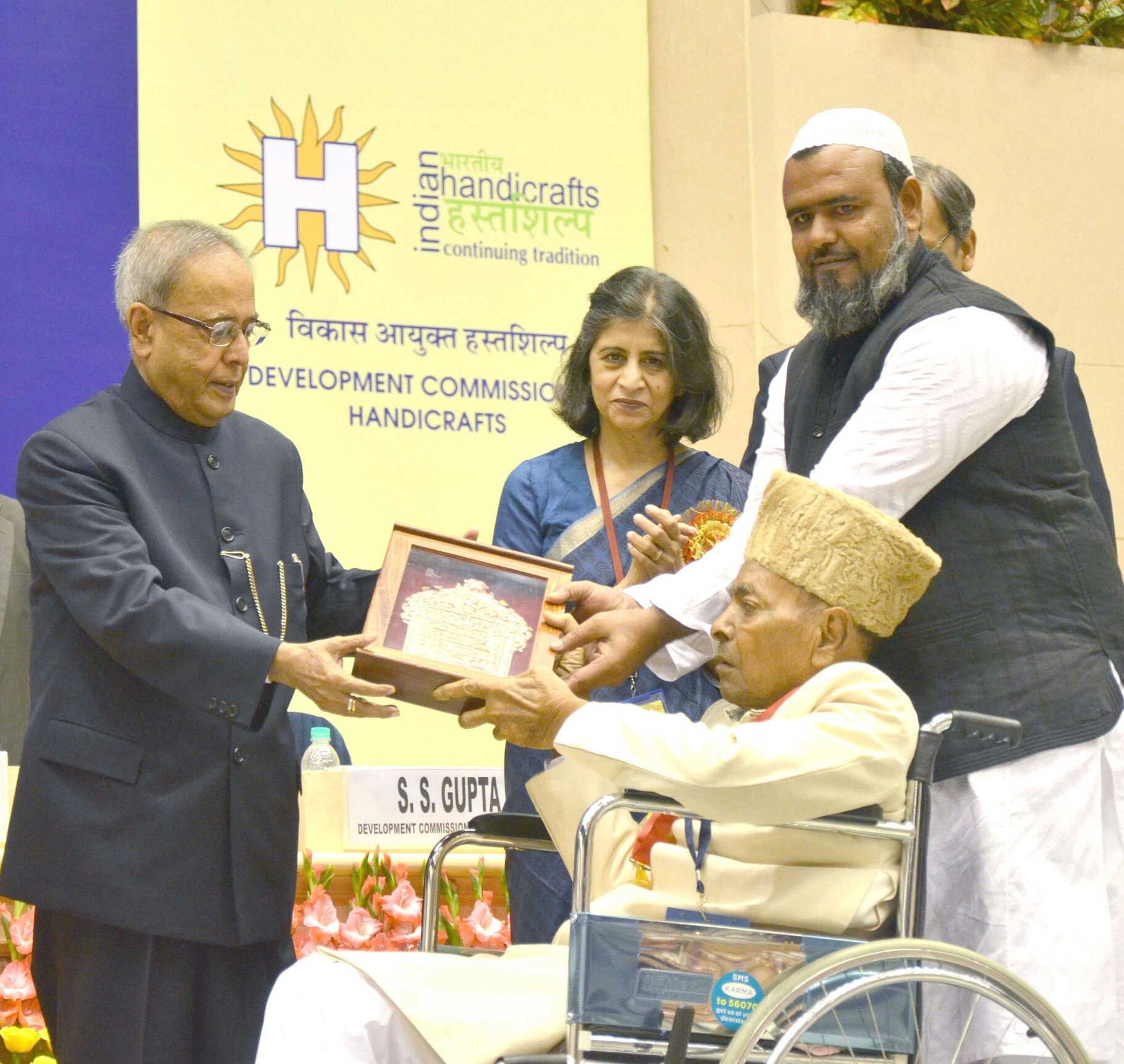 Ismail Sulemanji Khatri reciving Shilp Guru Award from Hon'ble President Shri Pranab Mukherjee at Vigyan Bhavan New Delhi